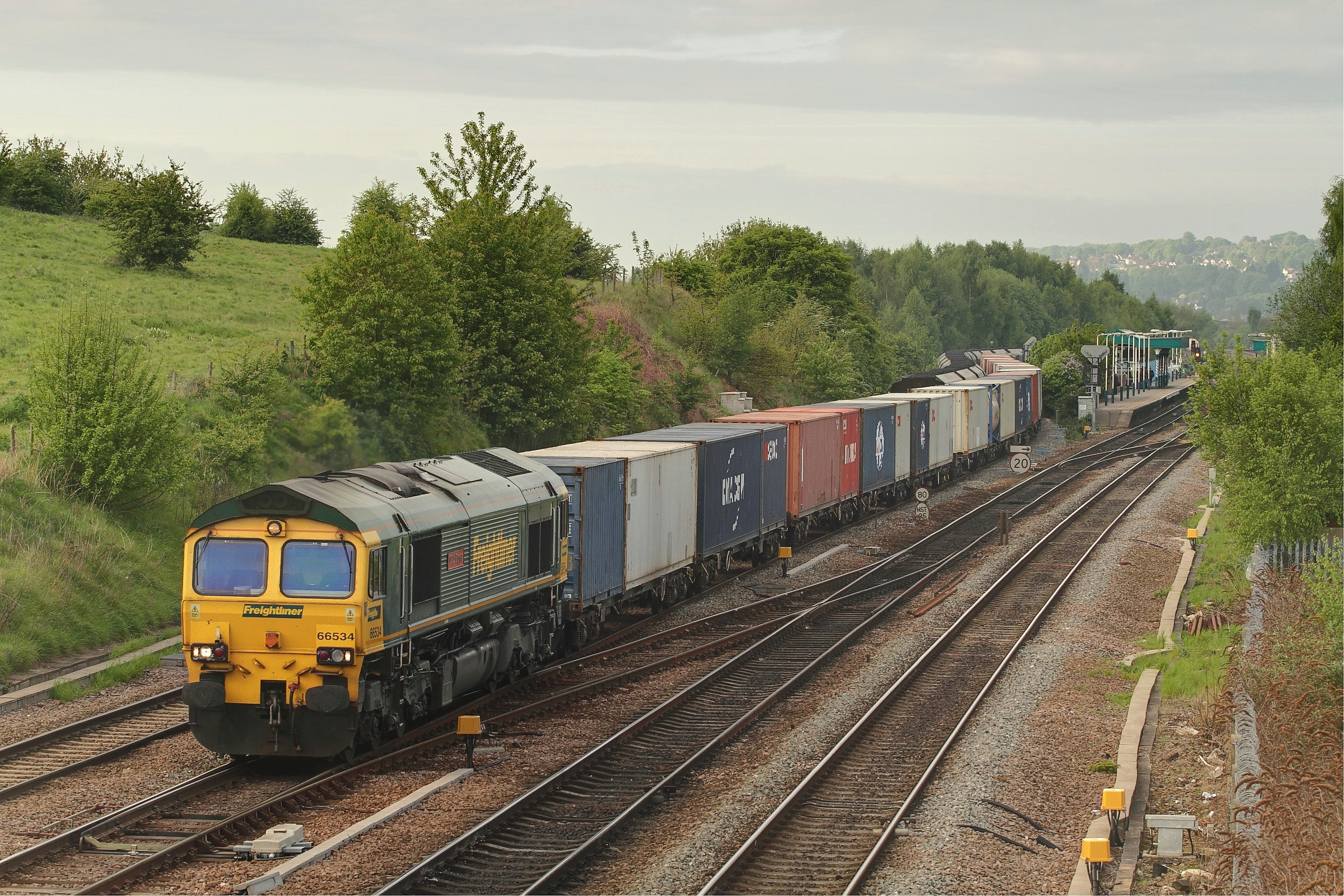 66534 passes Chesterfield working 4E01 Southampton - Leeds freightliner